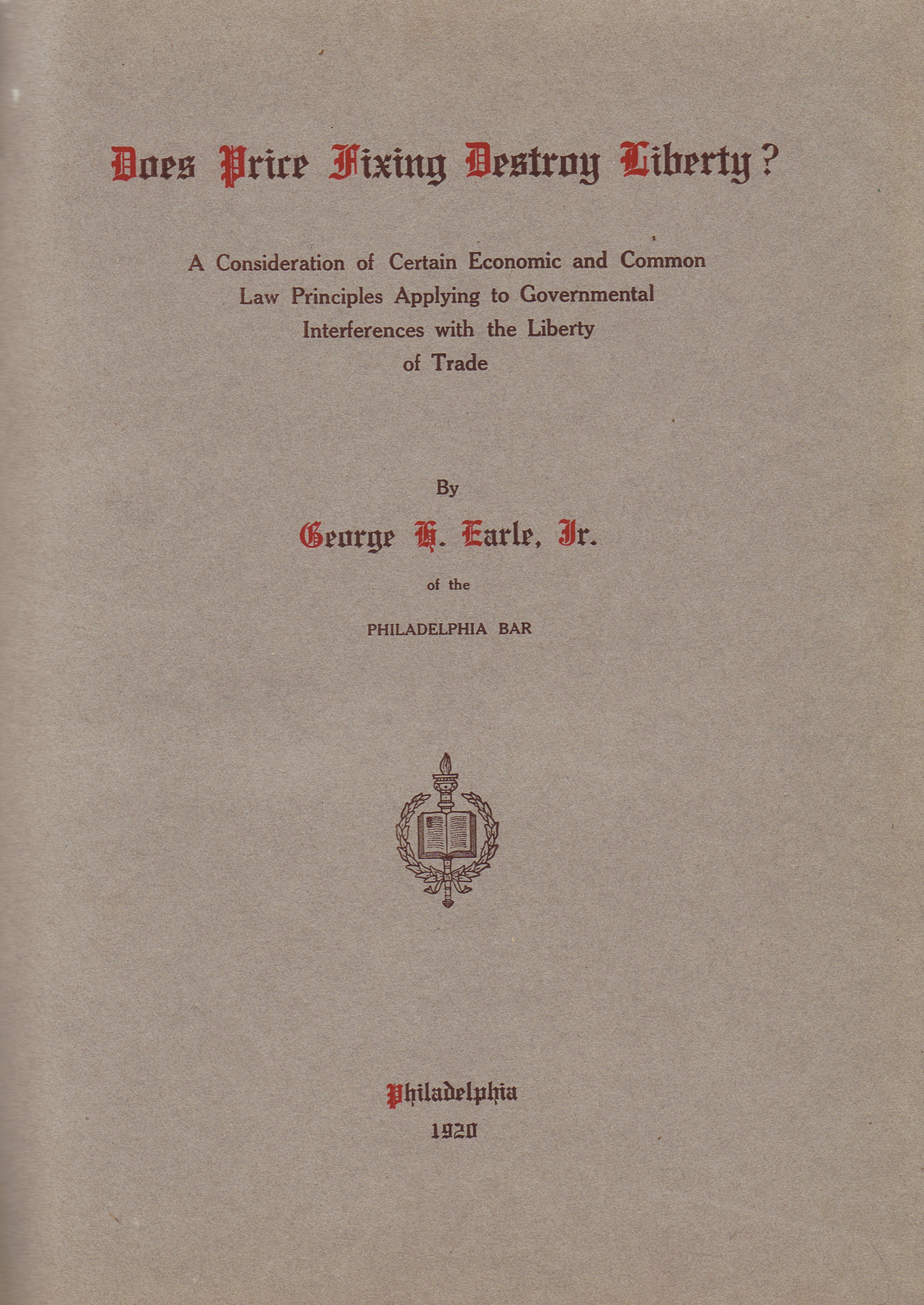 Page i of Does Price Fixing Destroy Liberty? (1920) by George H. Earle, Jr.